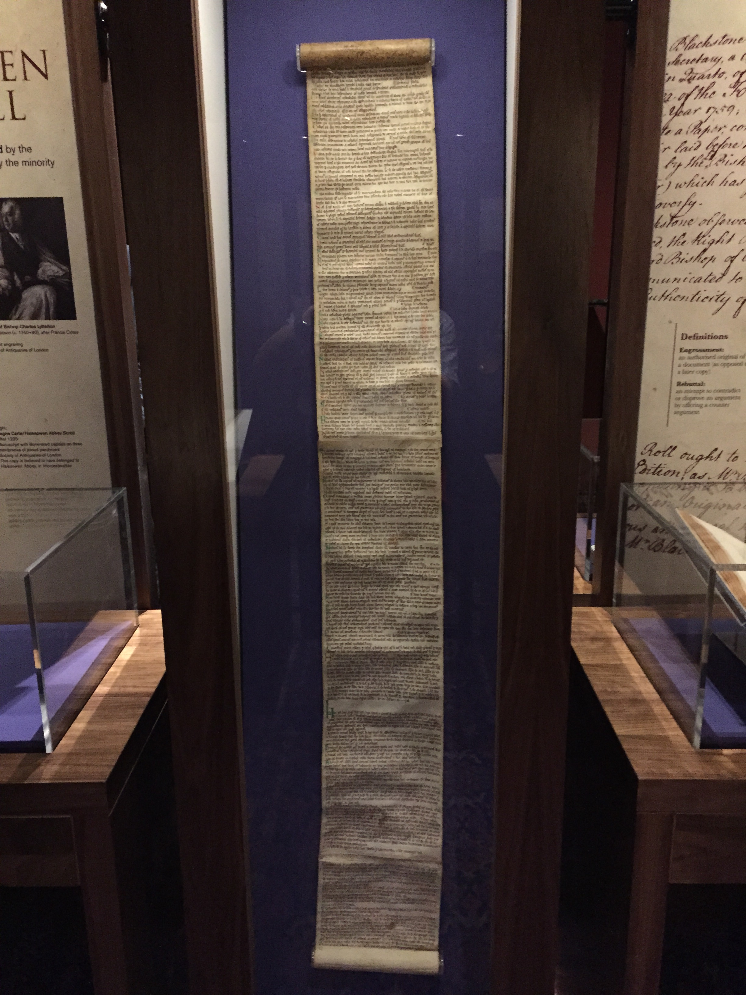 The Halesowen Abbey Scroll, a manuscript of Magna Carta with illuminated capitals on three membranes of joined parchment. It is believed to have been produced by the monks of Halesowen Abbey, Halesowen, Shropshire (now West Midlands), England, after 1225. Following the Dissolution of the Monasteries in 1538, the Abbey's property was acquired by the Lyttelton family. The scroll eventually came into the possession of Charles Lyttelton (1714–1768), who served as President of the Society of Antiquaries of London from 1765 till his death. He left the scroll to the Society in his will. The scroll was on display in an exhibition at the Society entitled Magna Carta through the Ages, commemorating the 800th anniversary of Magna Carta.